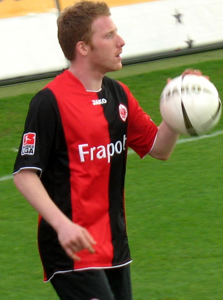 German football player Patrick Ochs